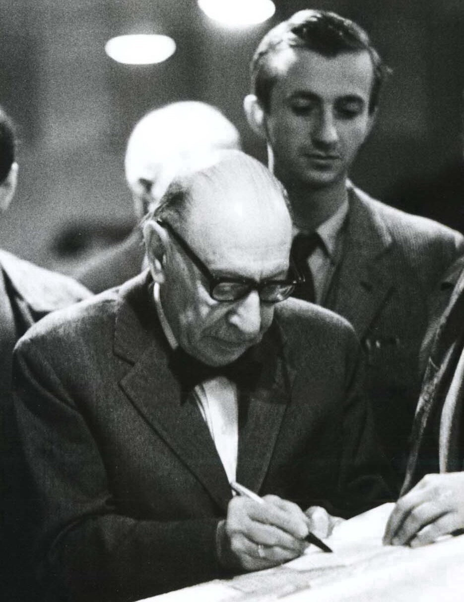 Igor Stravinsky dedicates to Árpád Balázs with the sheet music of Petruska's main theme